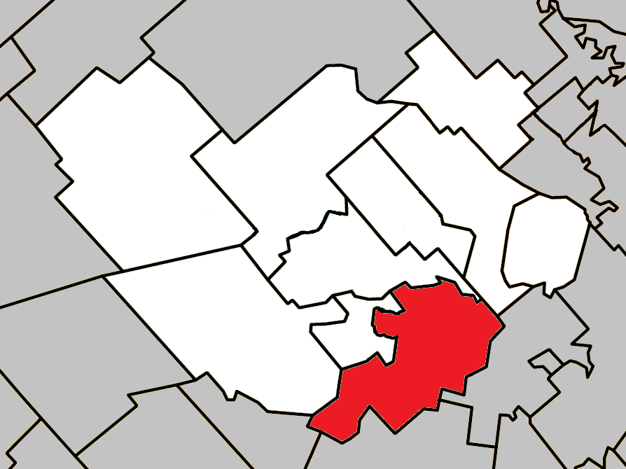 Location of Saint-Roch-de-l'Achigan, Quebec within Montcalm Regional County Municipality.